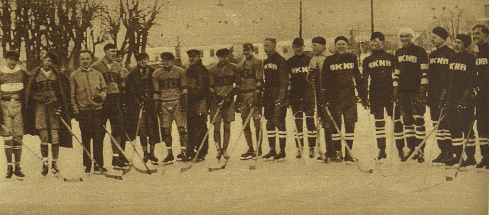 BK Německý Brod - LTC Pardubice, final match of regional czechoslovak hockey league, januar 1933